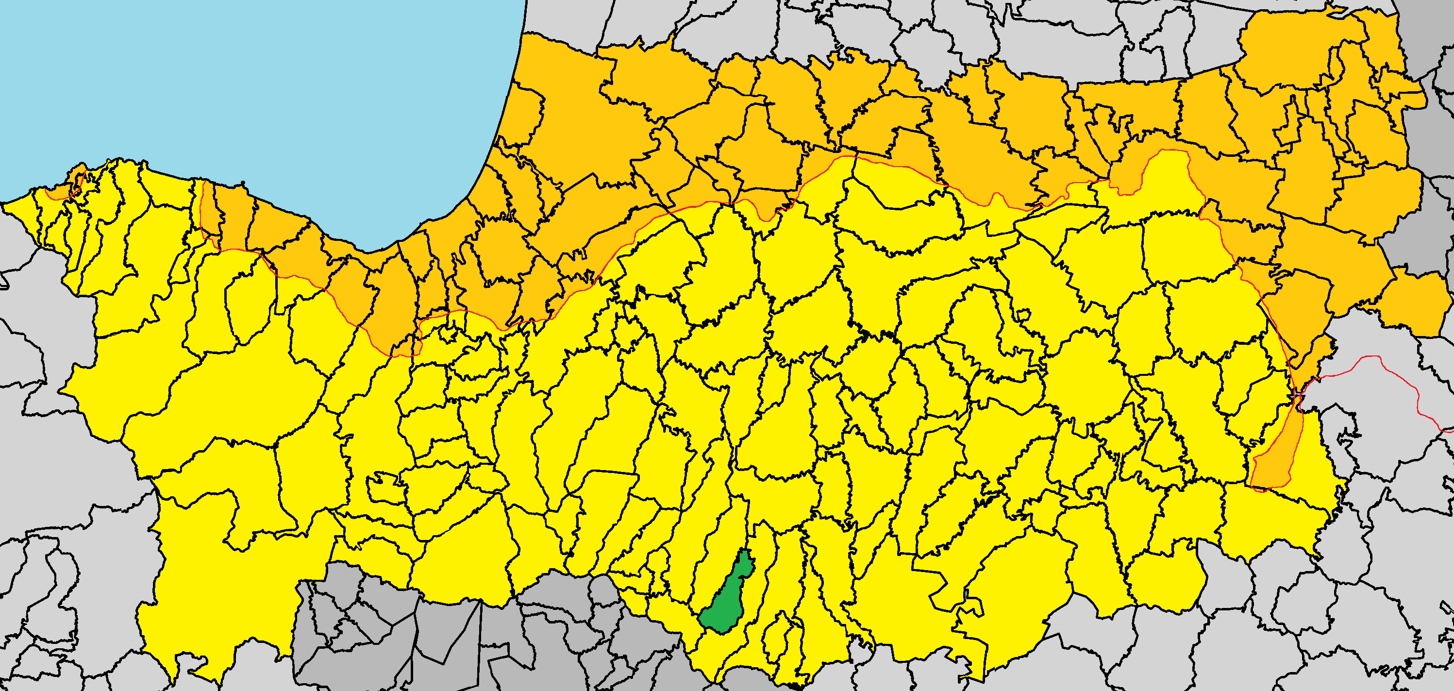 Askas in Nicosia District.